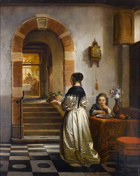 Fruit for the table